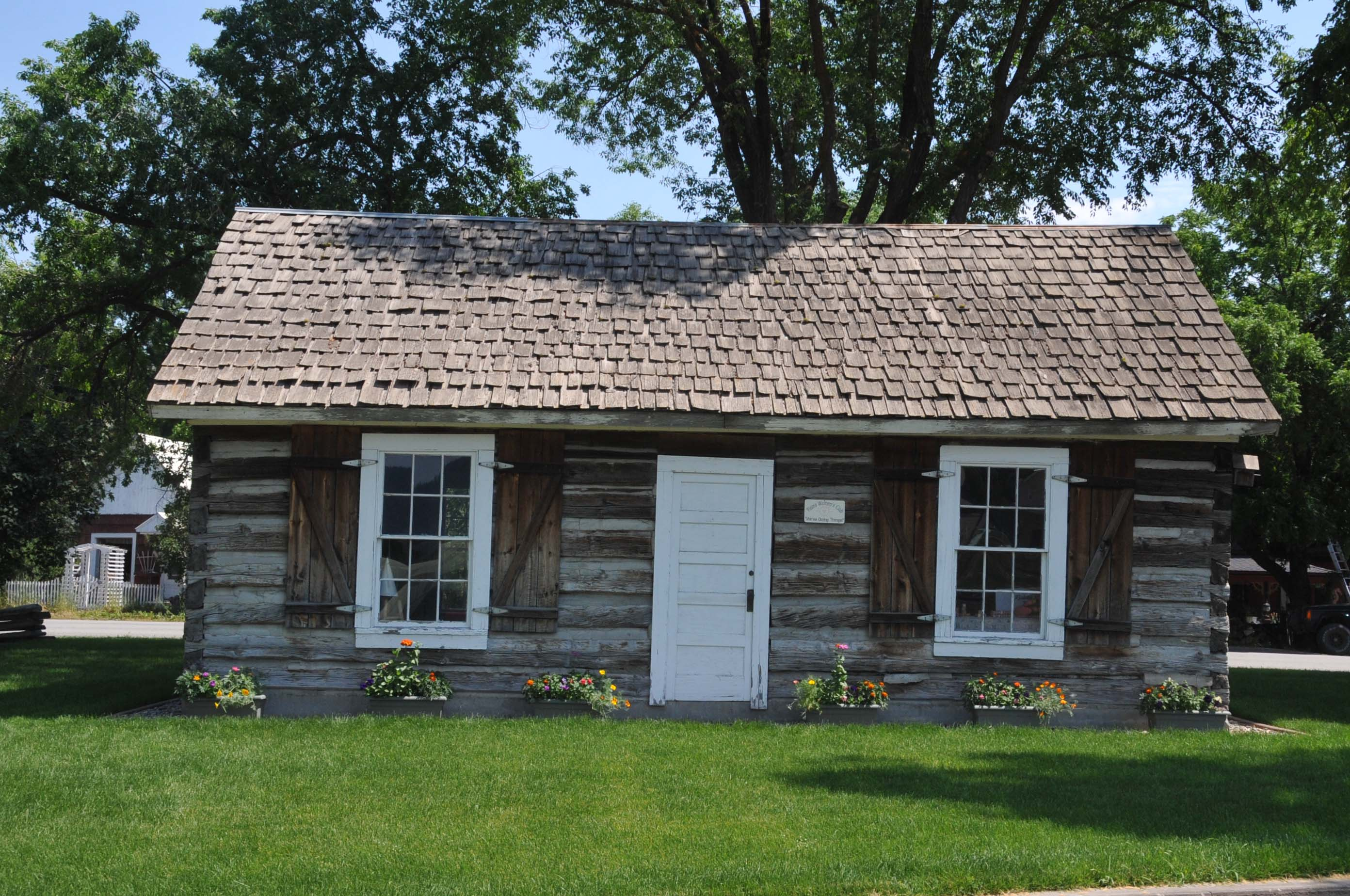 BUILT IN 18978 AND KNOWN AS THE WILD HORSE PLAINS LOG SCHOOLHOUSE